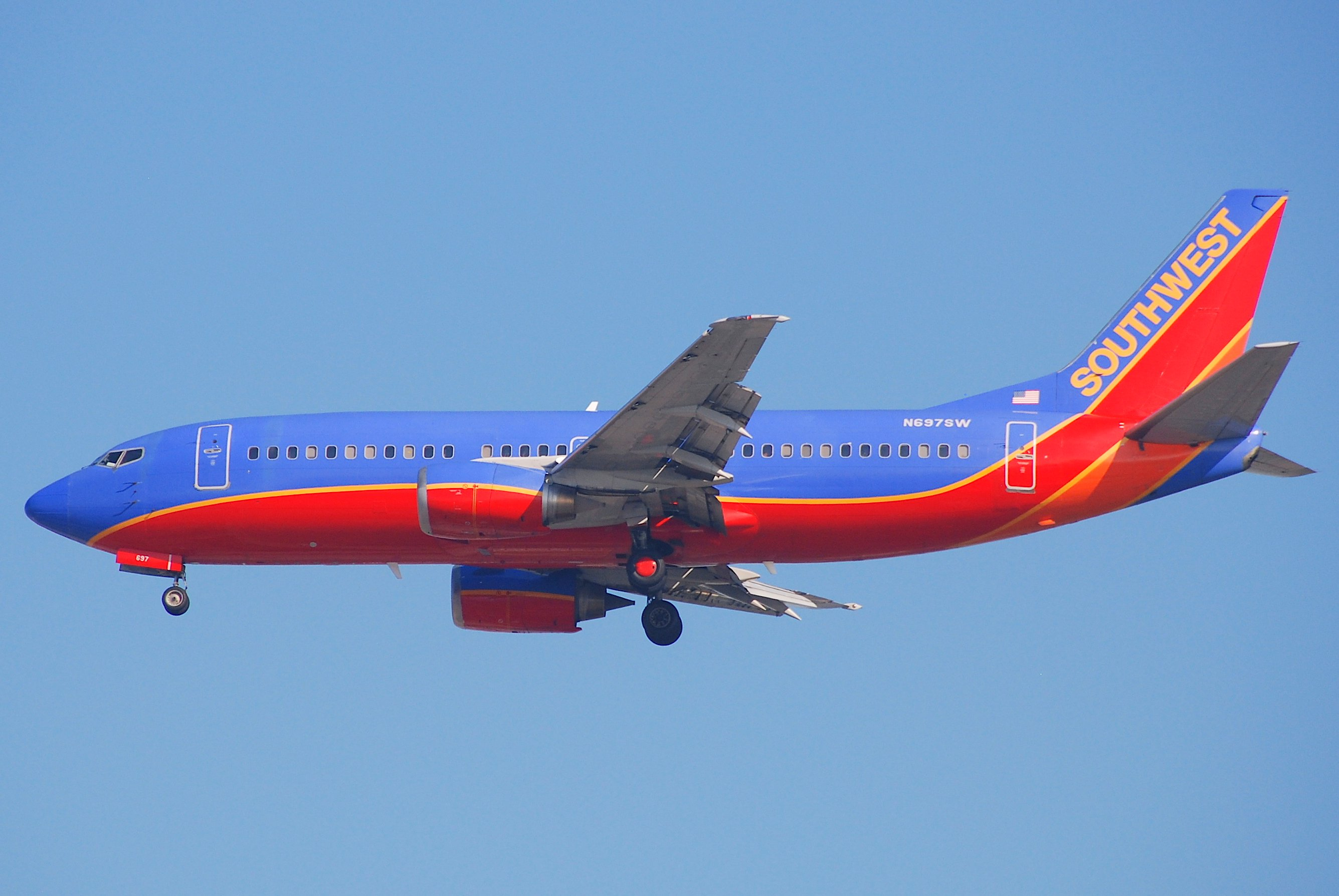 This Boeing 737-3T0 took its first flight on January 26, 1988...(c/n 23838/1505) 02/03/1988 Polaris N75356 10/05/1988 TACA N75356 30/10/1989 Aviateca N75356 01/03/1990 Aviateca N75356 16/04/1991 America West Airlines N319AW 07/01/1993 Morris Air N319AW 01/01/1995 Southwest Airlines N764MA 06/03/1995 Southwest Airlines N697SW